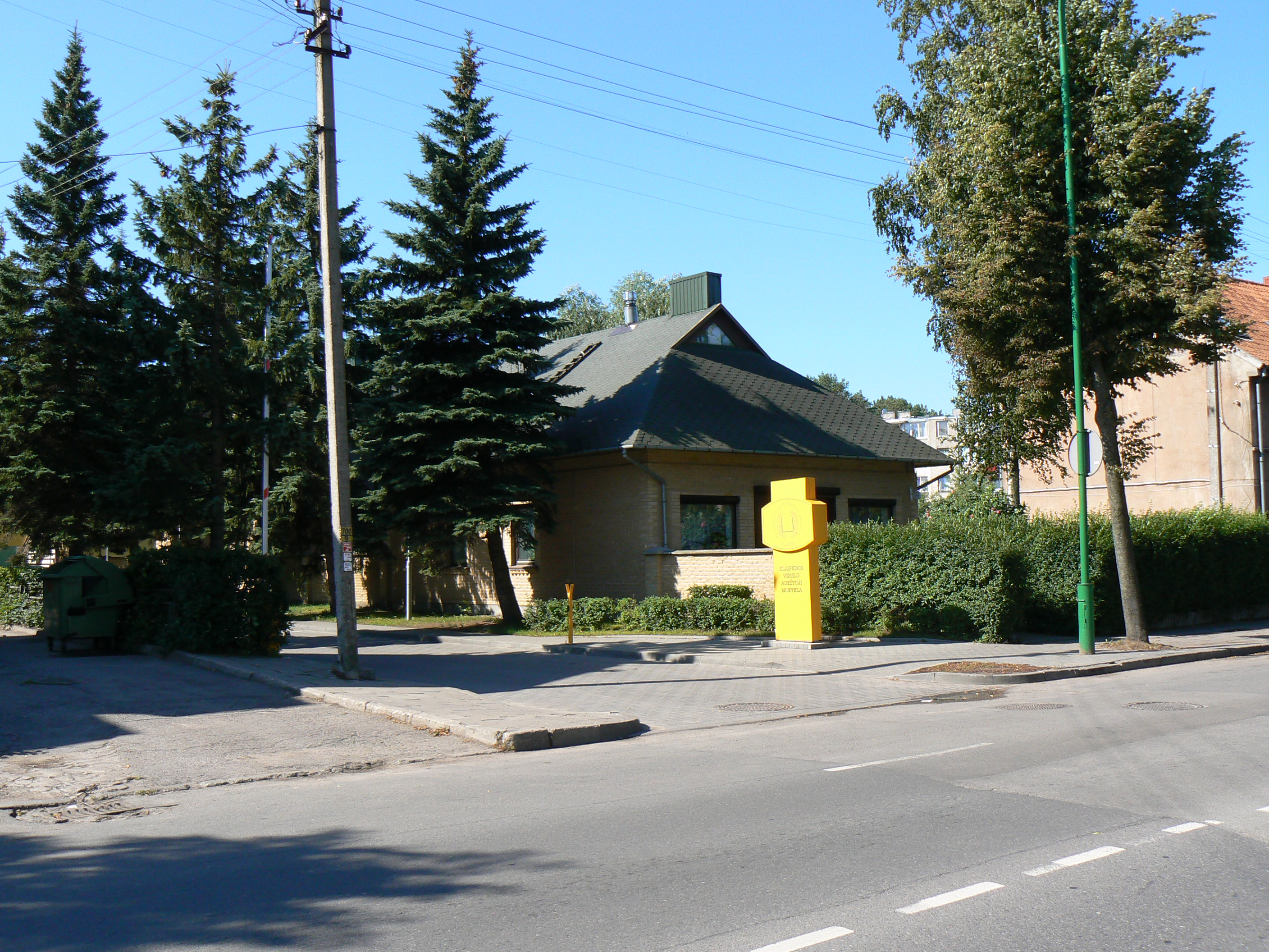 Klaipėda Bussines school in Tilžės street